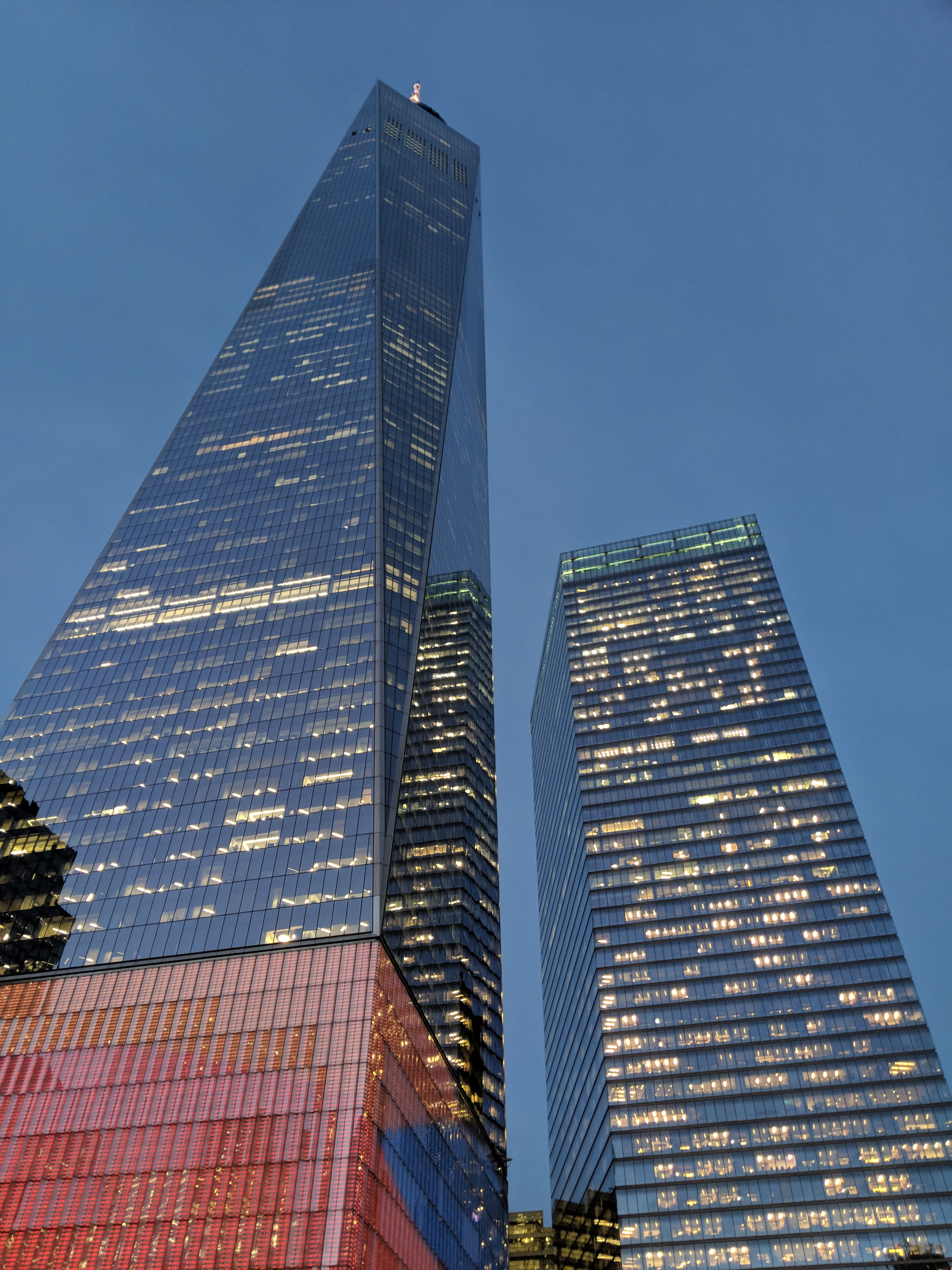 One World Trade Center (left) and 7 World Trade Center (right) on the evening of December 5, 2018.